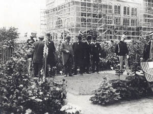 Dansk-amerikansk dag 4. juli aflagdes besøg i forevisningshaven ved den næsten færdige den næsten færdige Fjordsgades Skole. Yderst til venstre ses kronprins Christian (X) i samtale med konseilspræsident Niels Neergaard. under Landsudstillingen i Aarhus, 1909